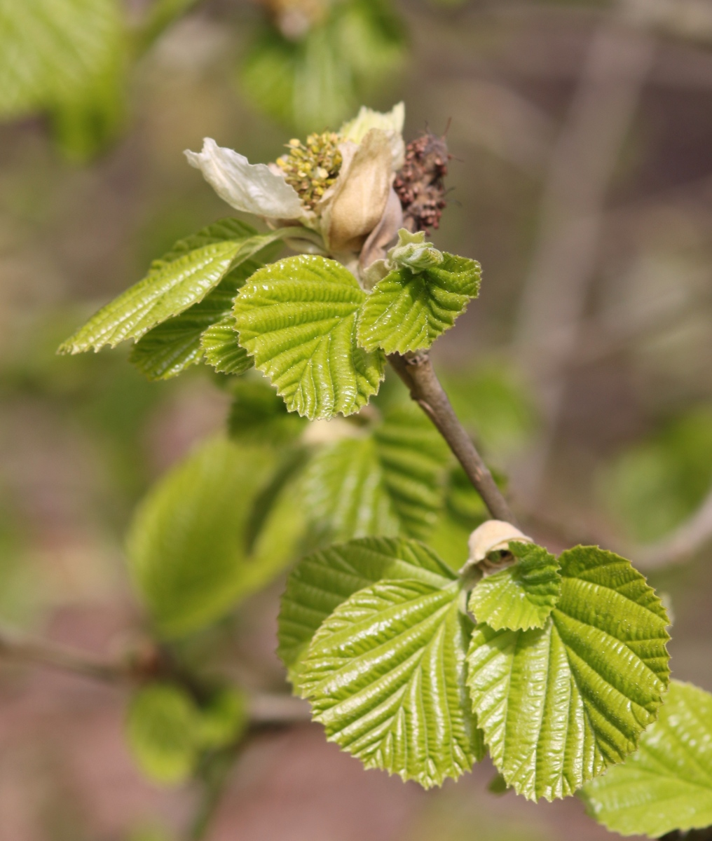 Flowering branch of Parrotiopsis jacquemontiana, Dendrological Garden Pruhonice, Czech Republic